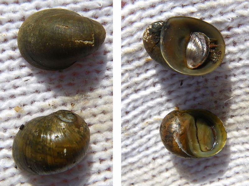 Top shell: Neripteron sp. from southern Honshu, Shikoku, Kyushu. Bellow: Clithon retropictus from Nagasaki.